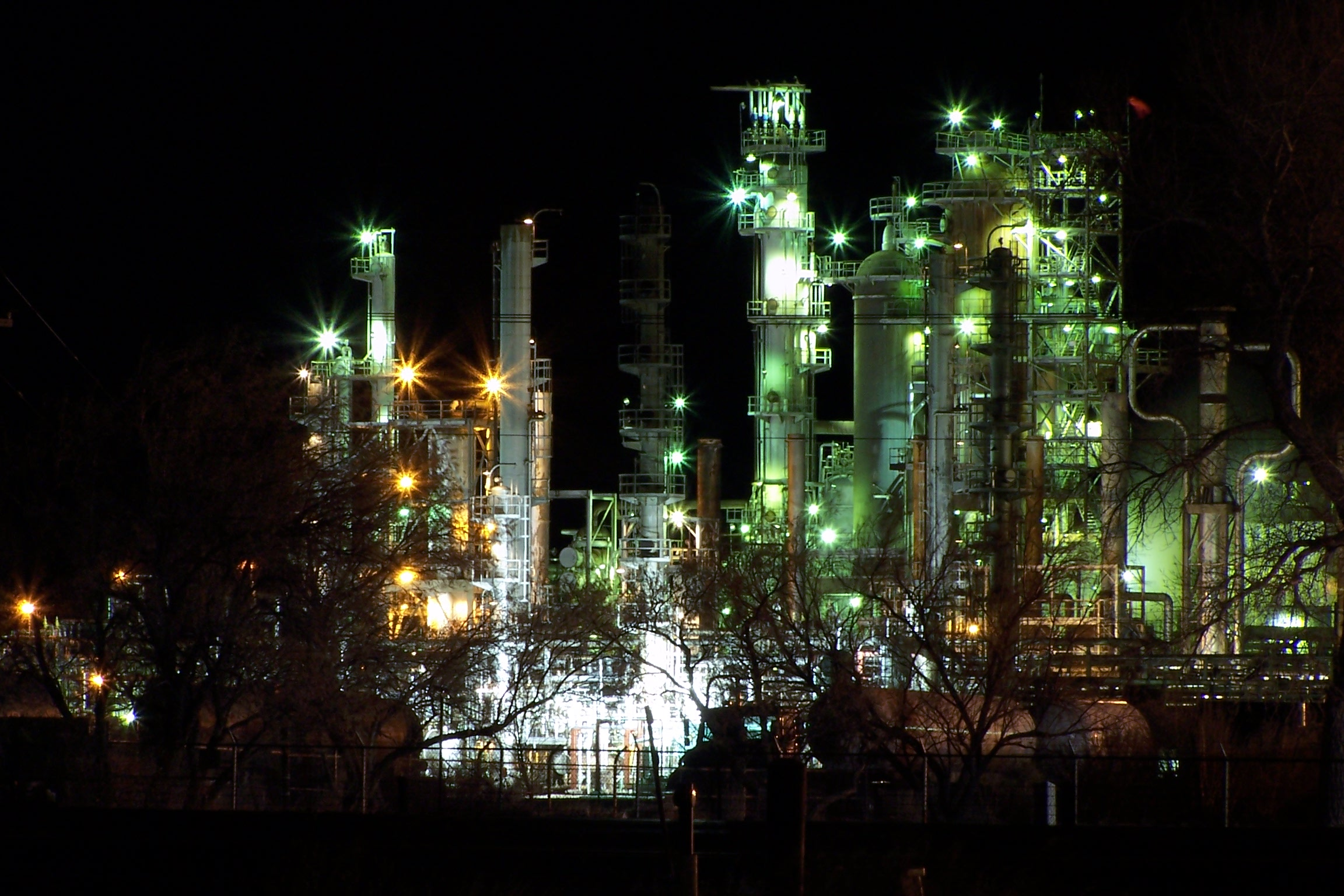 This is one of Casper, WY's many active oil refinery. Located in Evansville.